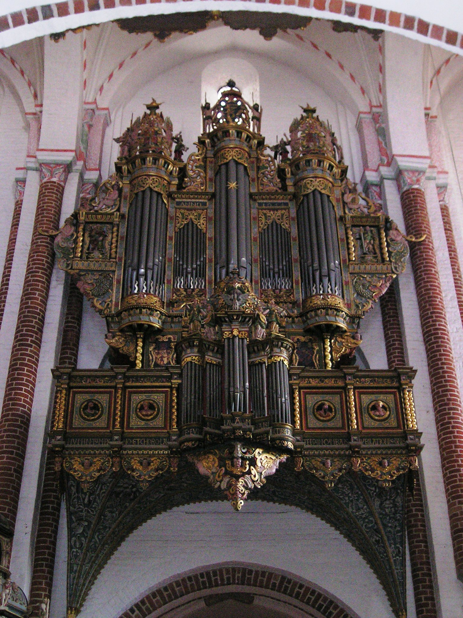 Organ in Roskilde Cathedral, Danmark